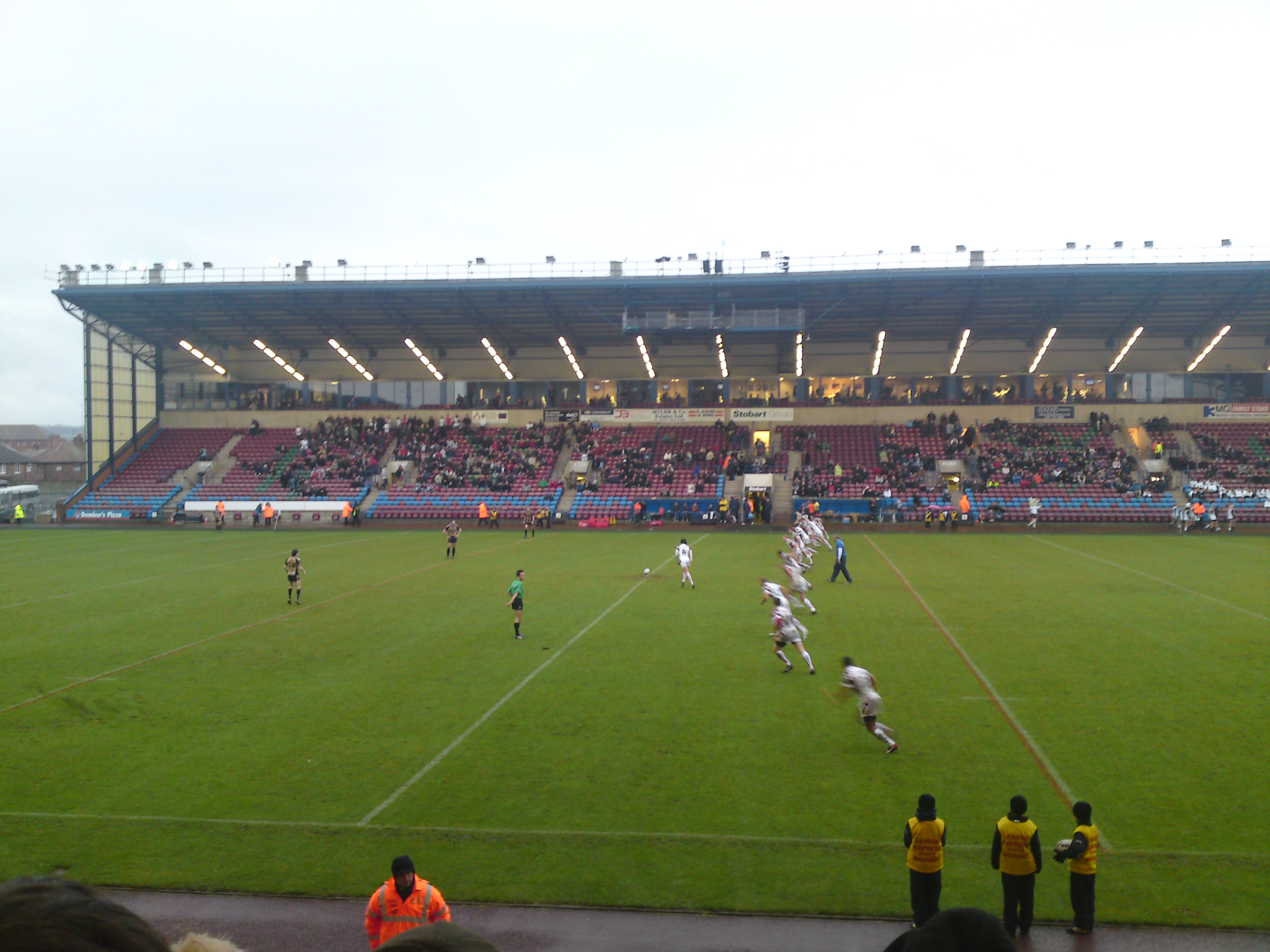 Widnes Vikings vs Salford City Reds. Friendly match, taken from the North Stand at the Stobart Stadium (Halton Stadium).